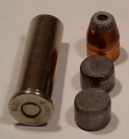 dismantled multiple bullet cartridge .357 Mag.